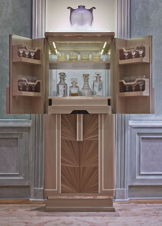 Image of Designers Straw Marquetry furniture